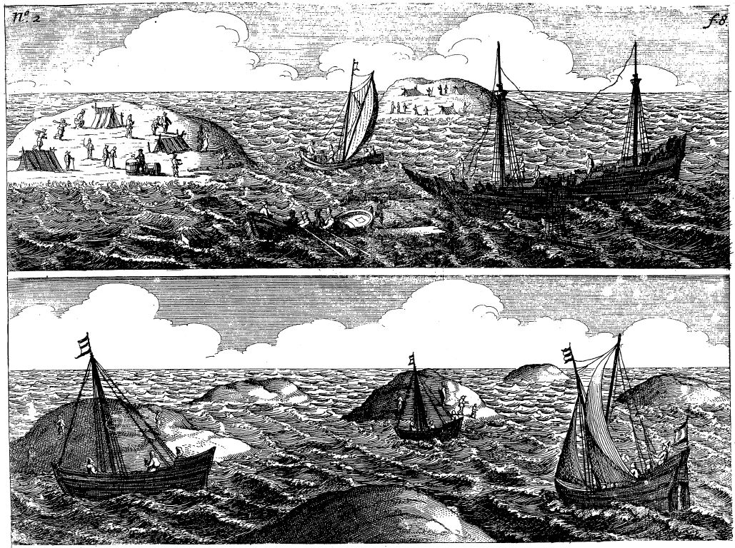 This is an image of Plate 2 from the 1647 Dutch book Ongeluckige voyagie, van't schip Batavia ("Unlucky voyage of the ship Batavia"). In the original work this plate followed Page 8.